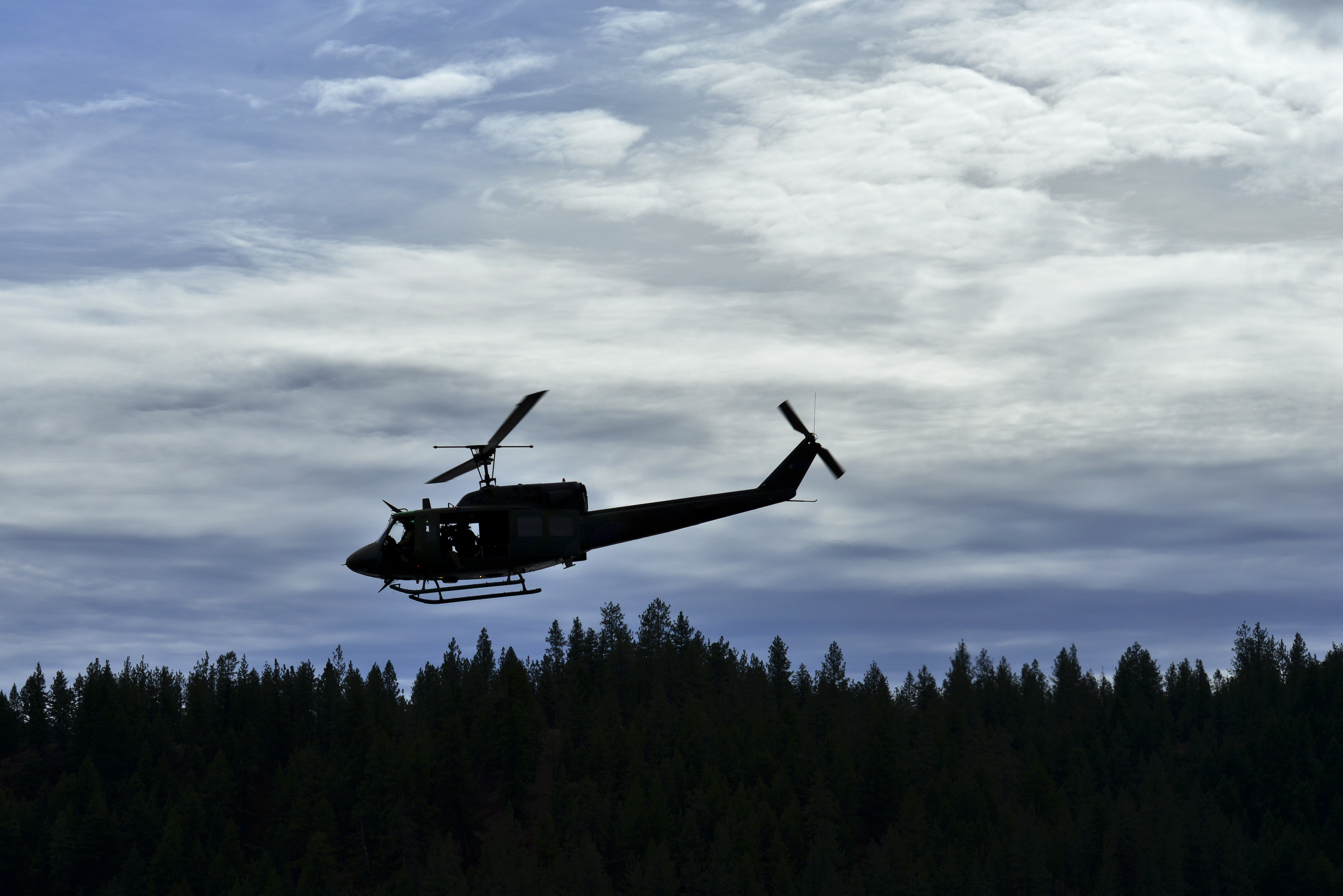 A UH-1N Iroquois helicopter from the 36th Rescue Flight passes over a tree line while looking for a safe potential water landing zone for 336th Training Group combat rescue officers to practice their freefall swimmer deployment during a water operations training scenario Oct. 17, 2014, at Long Lake, Washington. The 36th RQF supports the 336th TRG through hands-on helicopter operations for more than 3,000 students per year. Training is conducted year-round at Fairchild and at the school's field location in the Colville National Forest, about 60 miles north of the base. Flight operations include live rescue hoist training, para drop demonstrations, and combat rescue procedures training for students in the basic Combat Survival Course. (U.S. Air Force photo/Staff Sgt. Alexandre Montes)